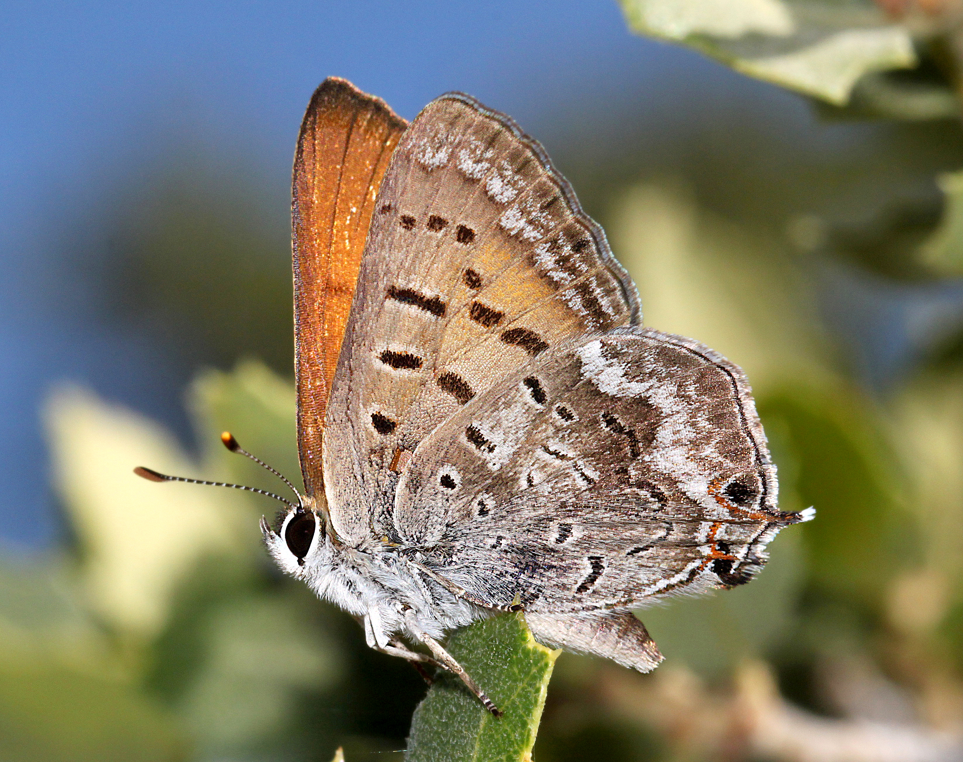 Butterflies of North America